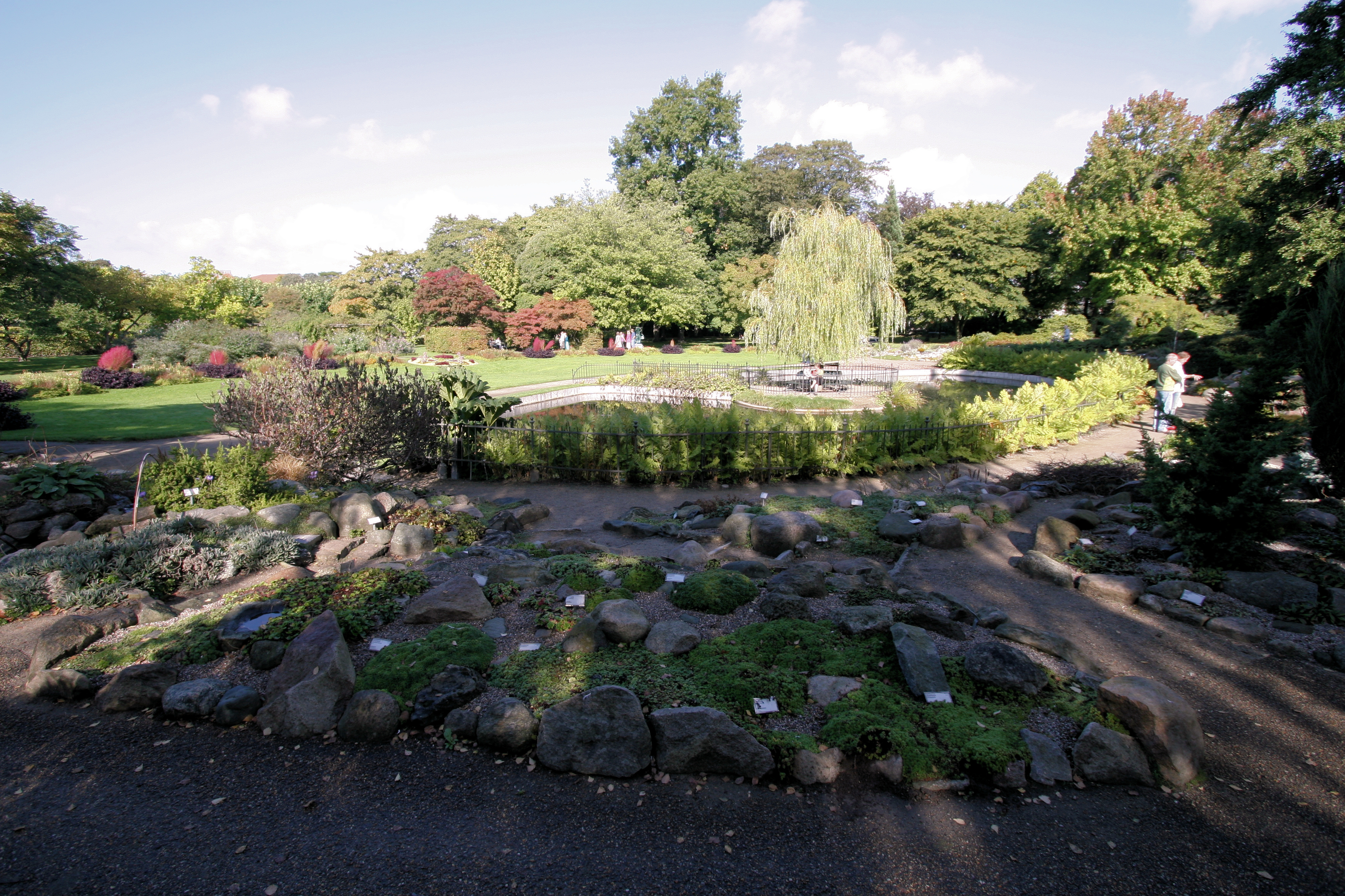 KVL - The Royal Veterinary and Agricultural University of Denmark. KVL's Garden, Copenhagen